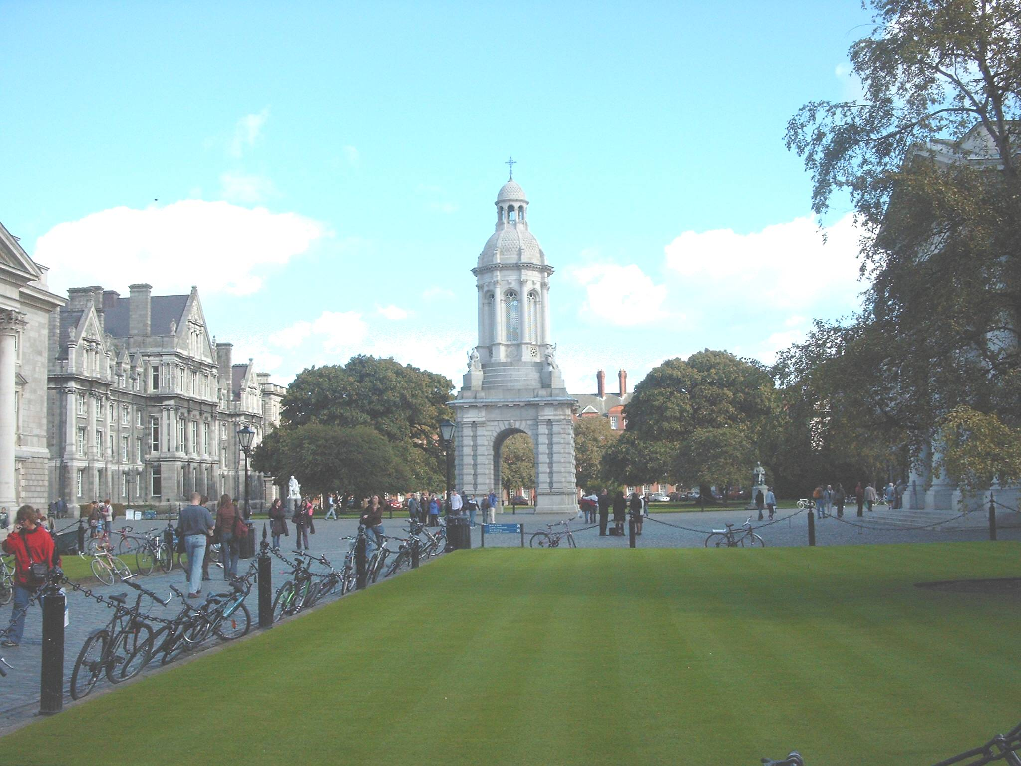 Trinity College (Dublin, Irland)